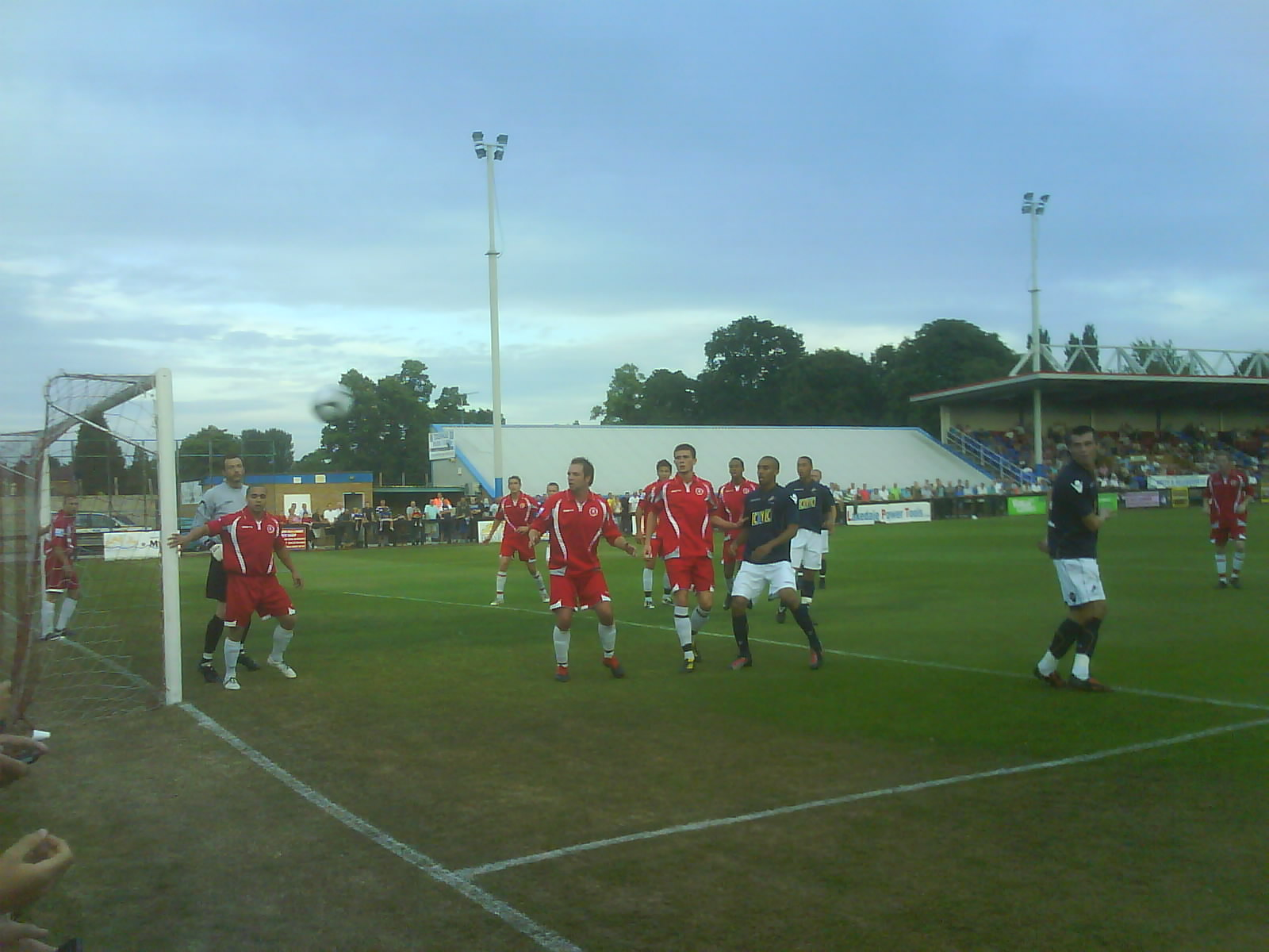 Welling United defend a corner against Millwall.